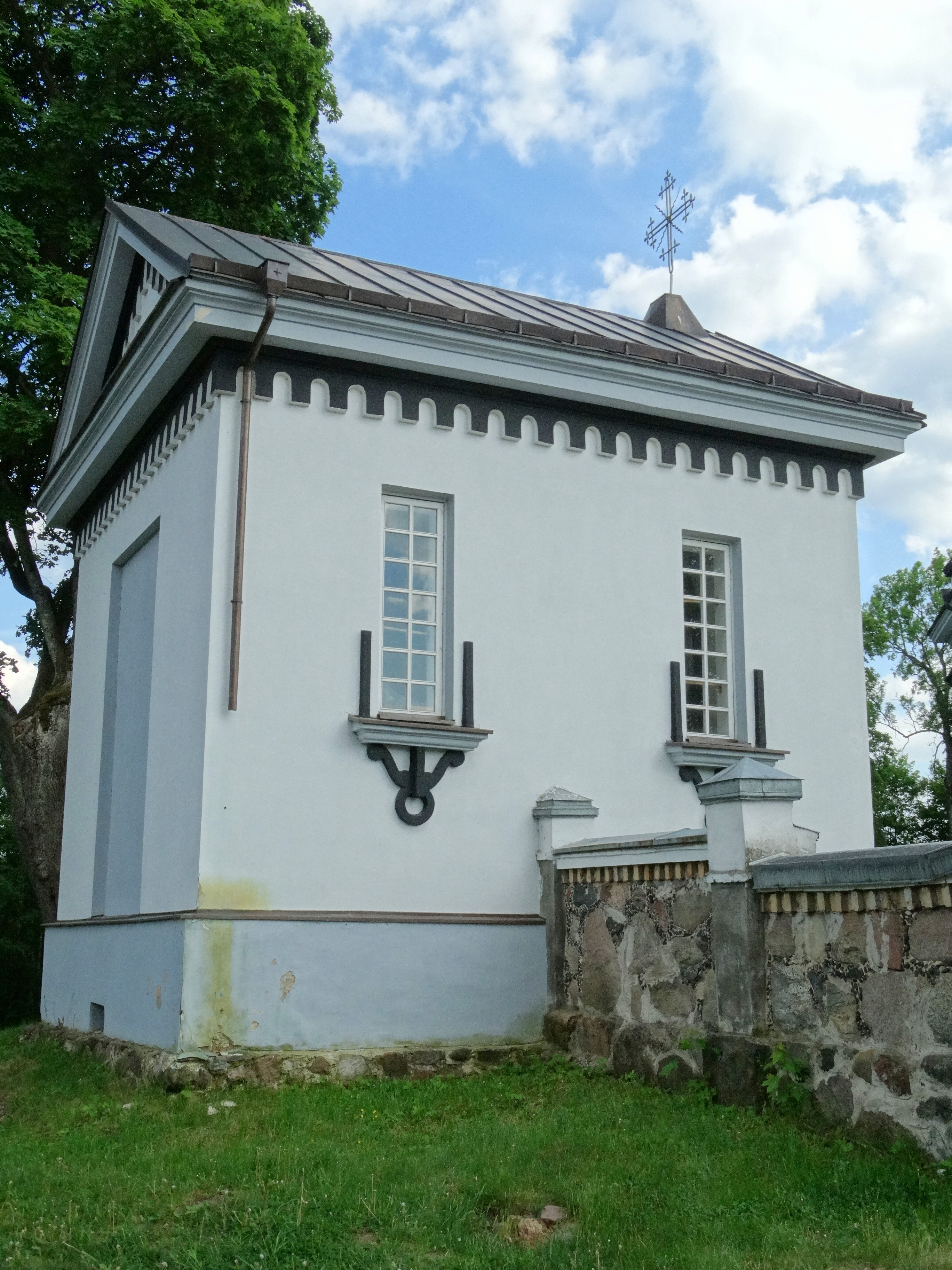 Parczewski family chapel, Nemenčinė, Vilnius District, Lithuania